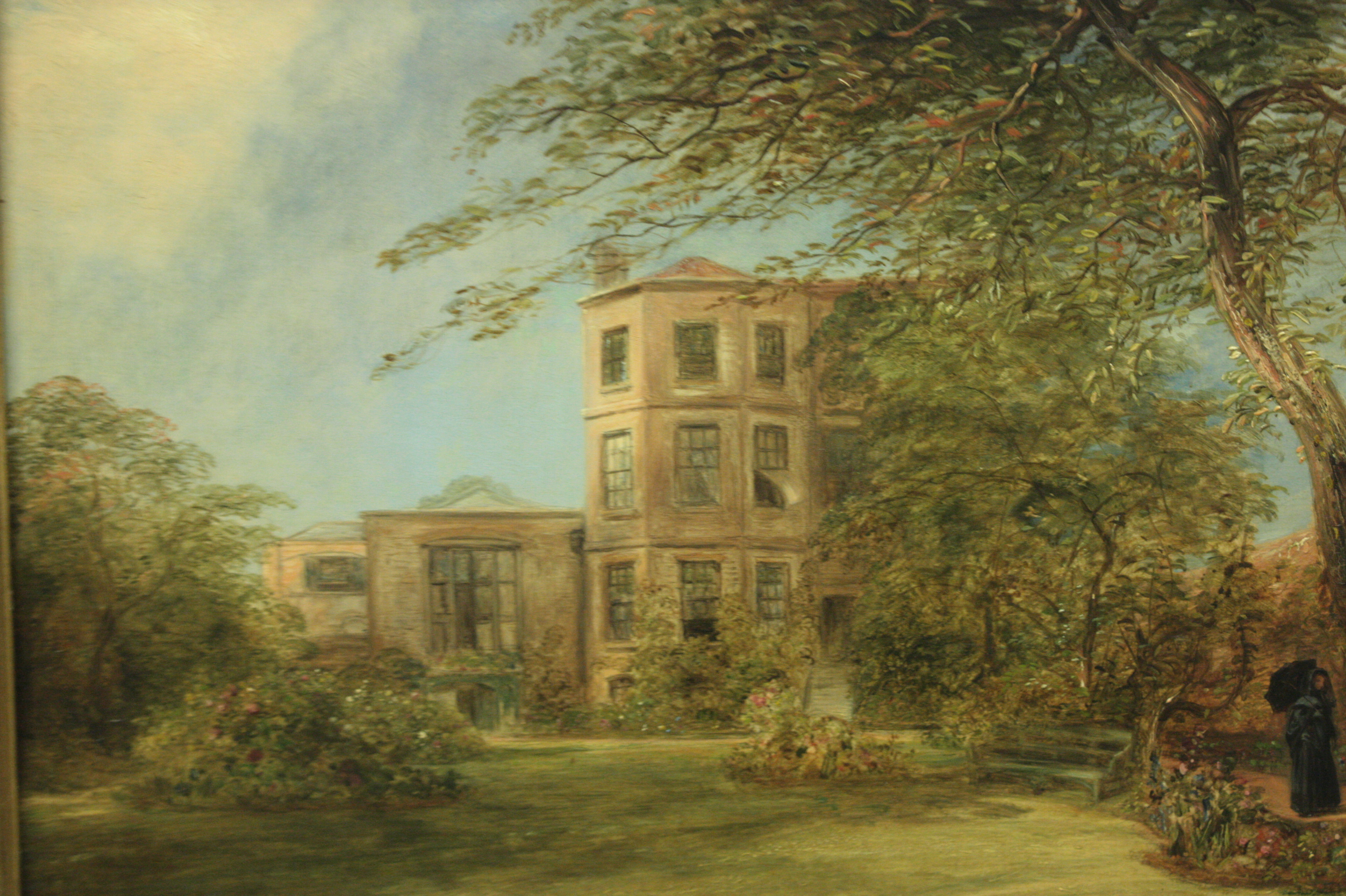 Sir David Wilkie's residence in Kensington London, by William Collins 1841 (painted just after Wilkie's death)